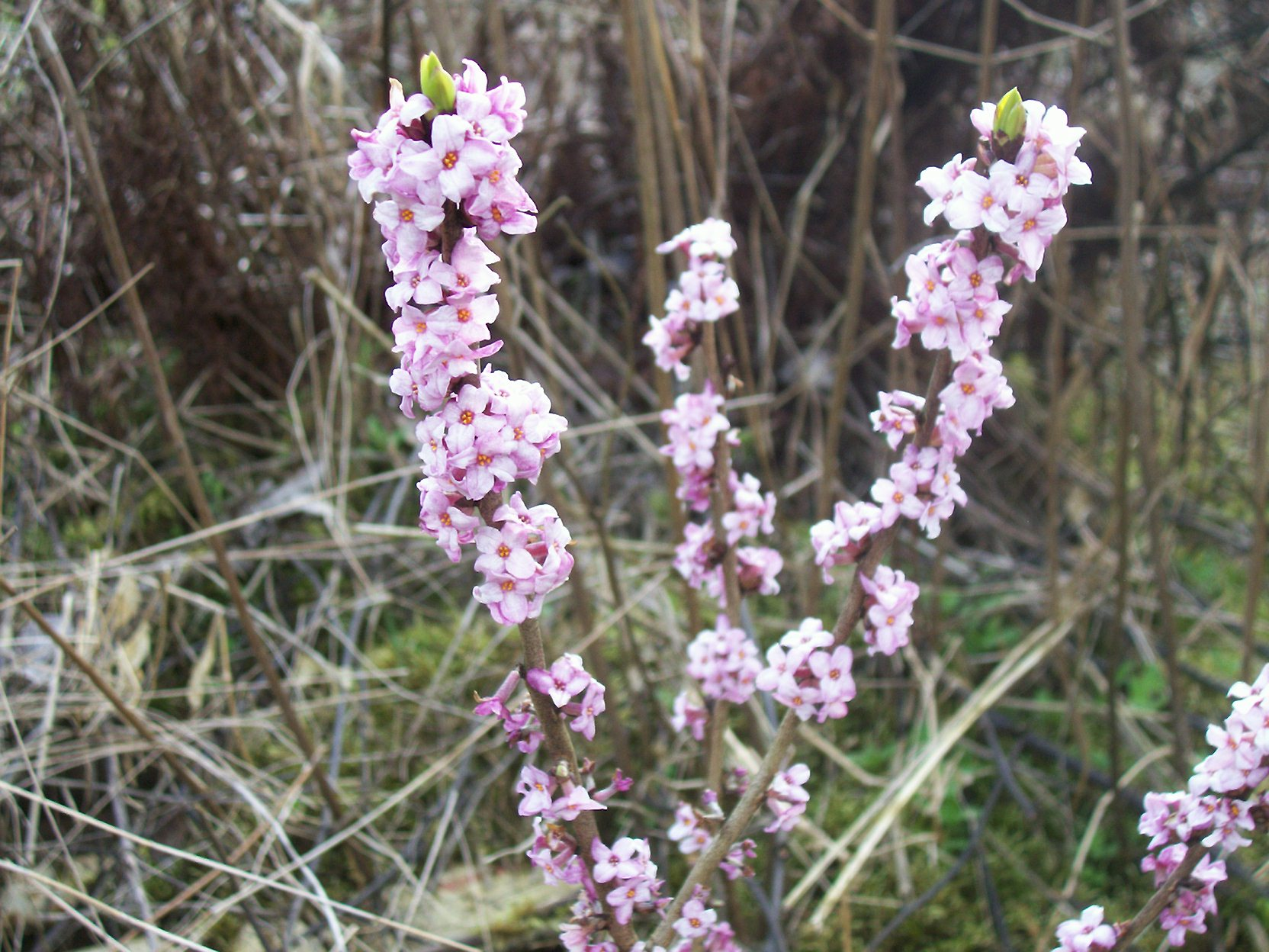 Daphne mezereum in bloom, Norway 2008